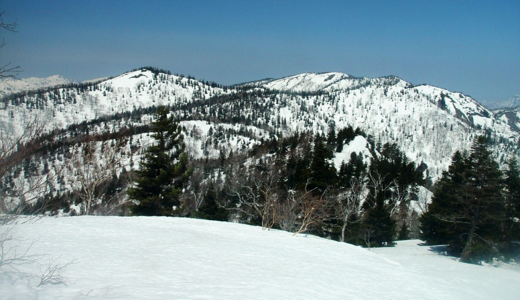 Mount_Sarugabanba_from_Mount_Gozen